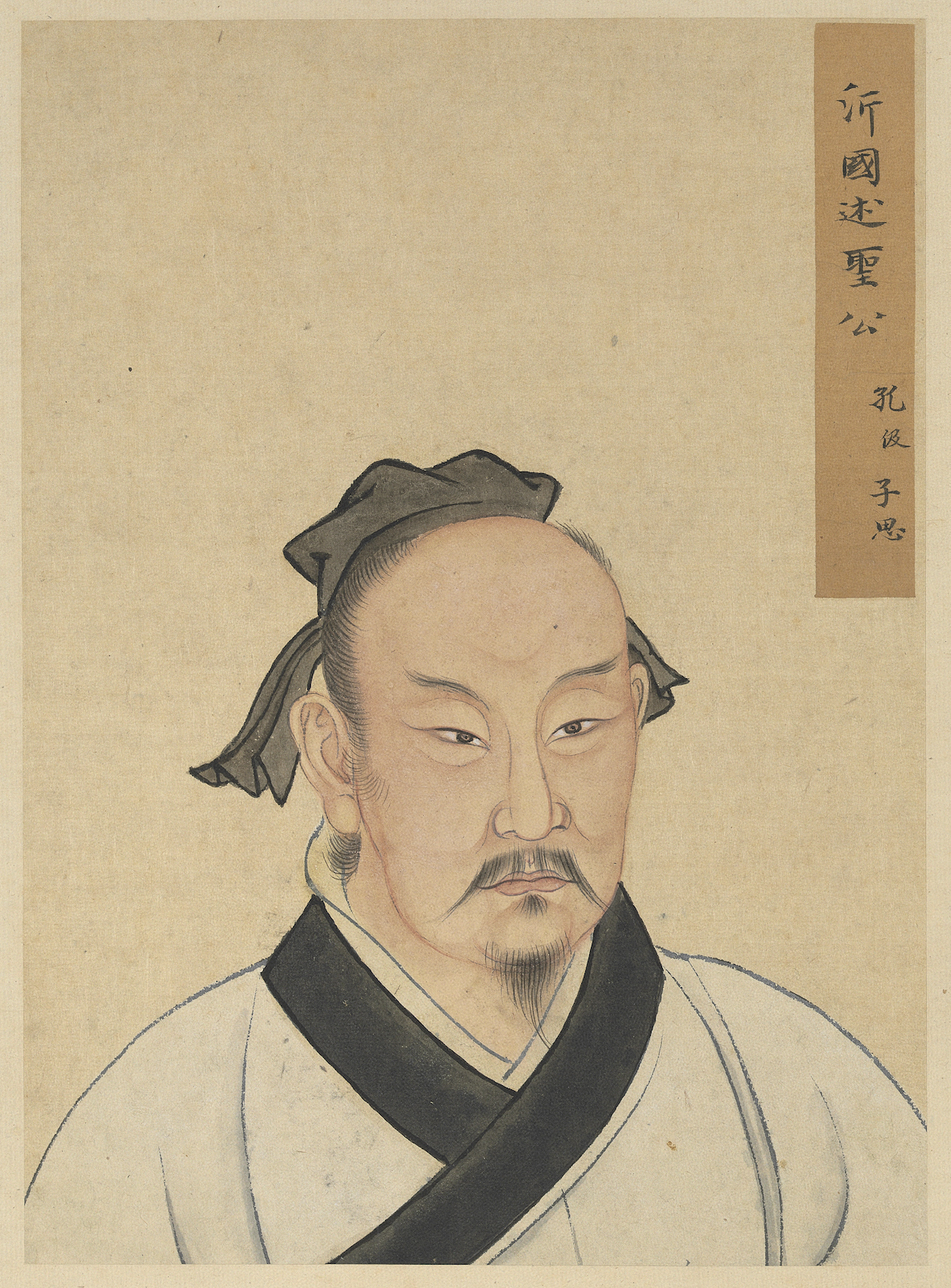 This depicts Kong Ji (孔伋), styled Zisi (子思).